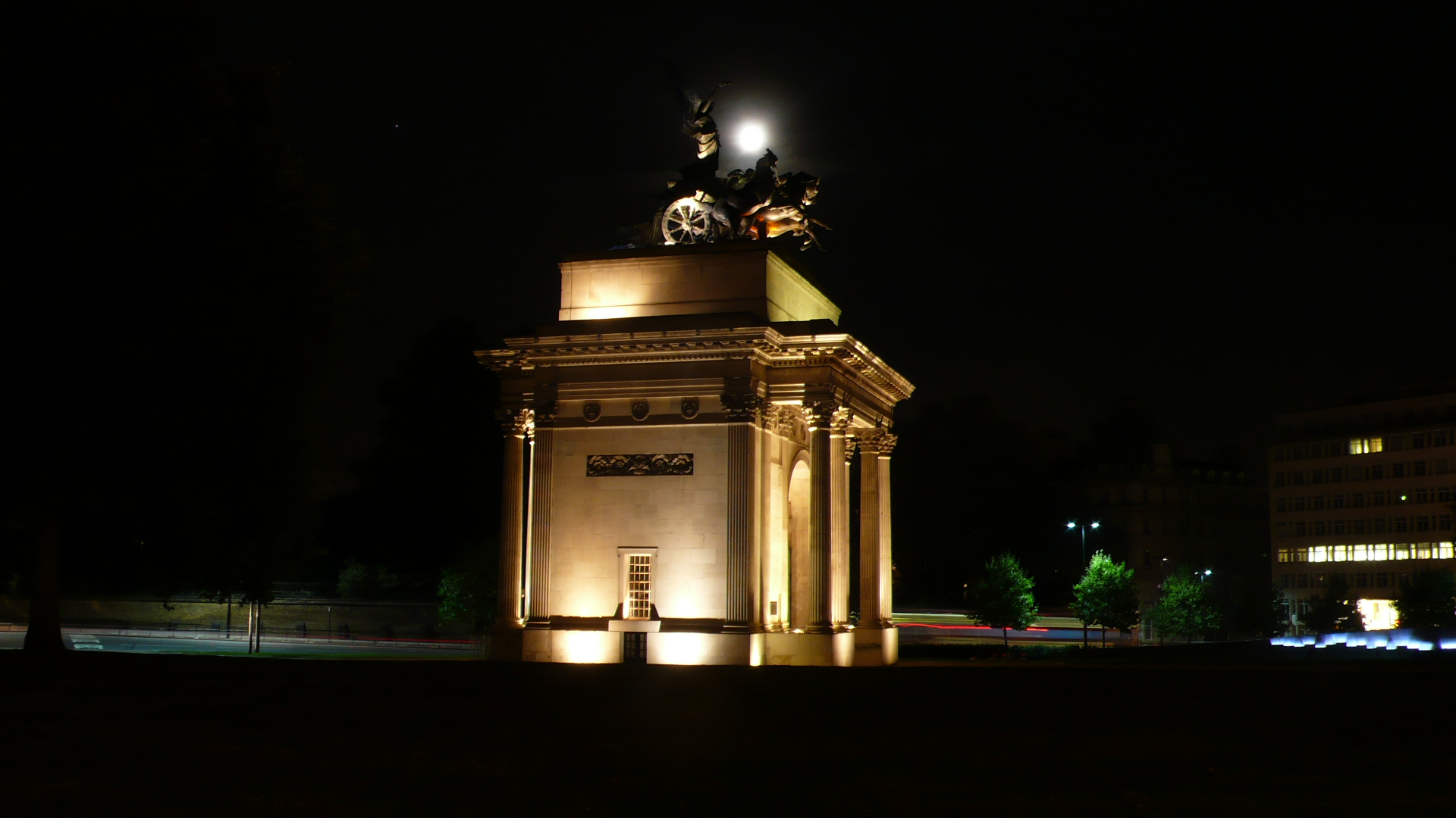 Wellington Arch at Hyde Park Corner, London Hyde Park Corner, London. The Wellington Arch at full moon.